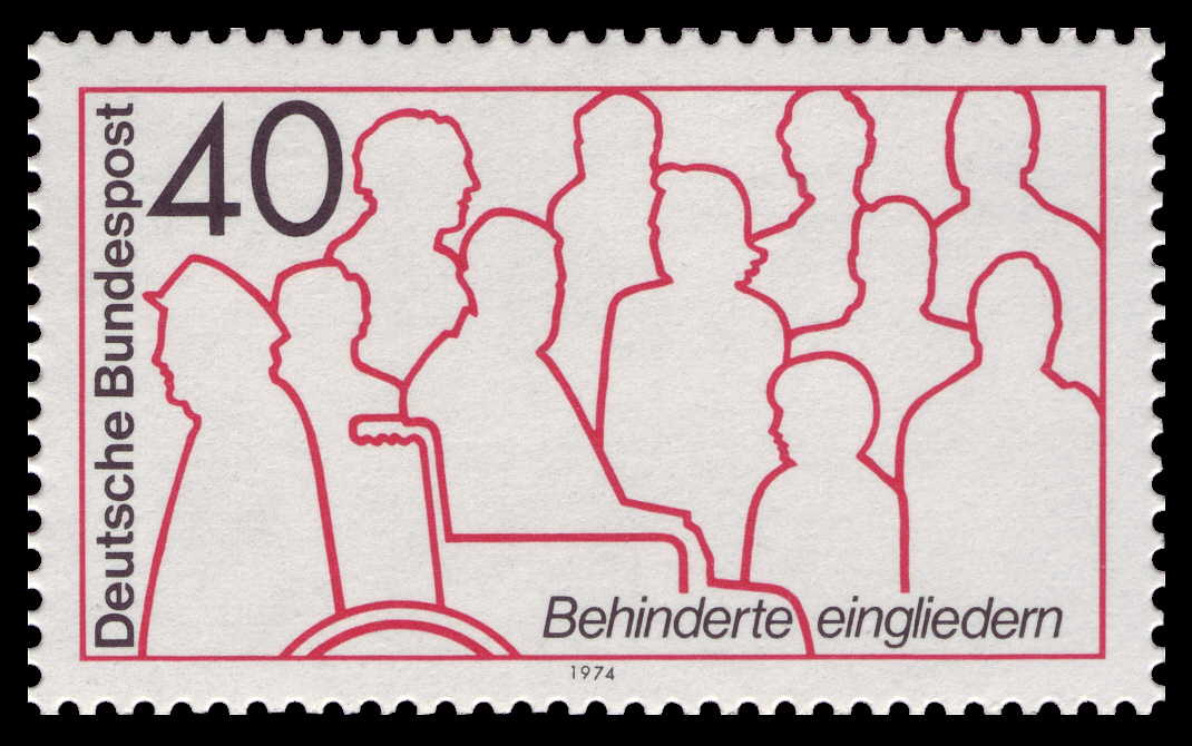 rehabilitation of handicapped people Graphics by Langer Ausgabepreis: 40 Pfennig First Day of Issue / Erstausgabetag: 15. Februar 1974 Michel-Katalog-Nr: 796